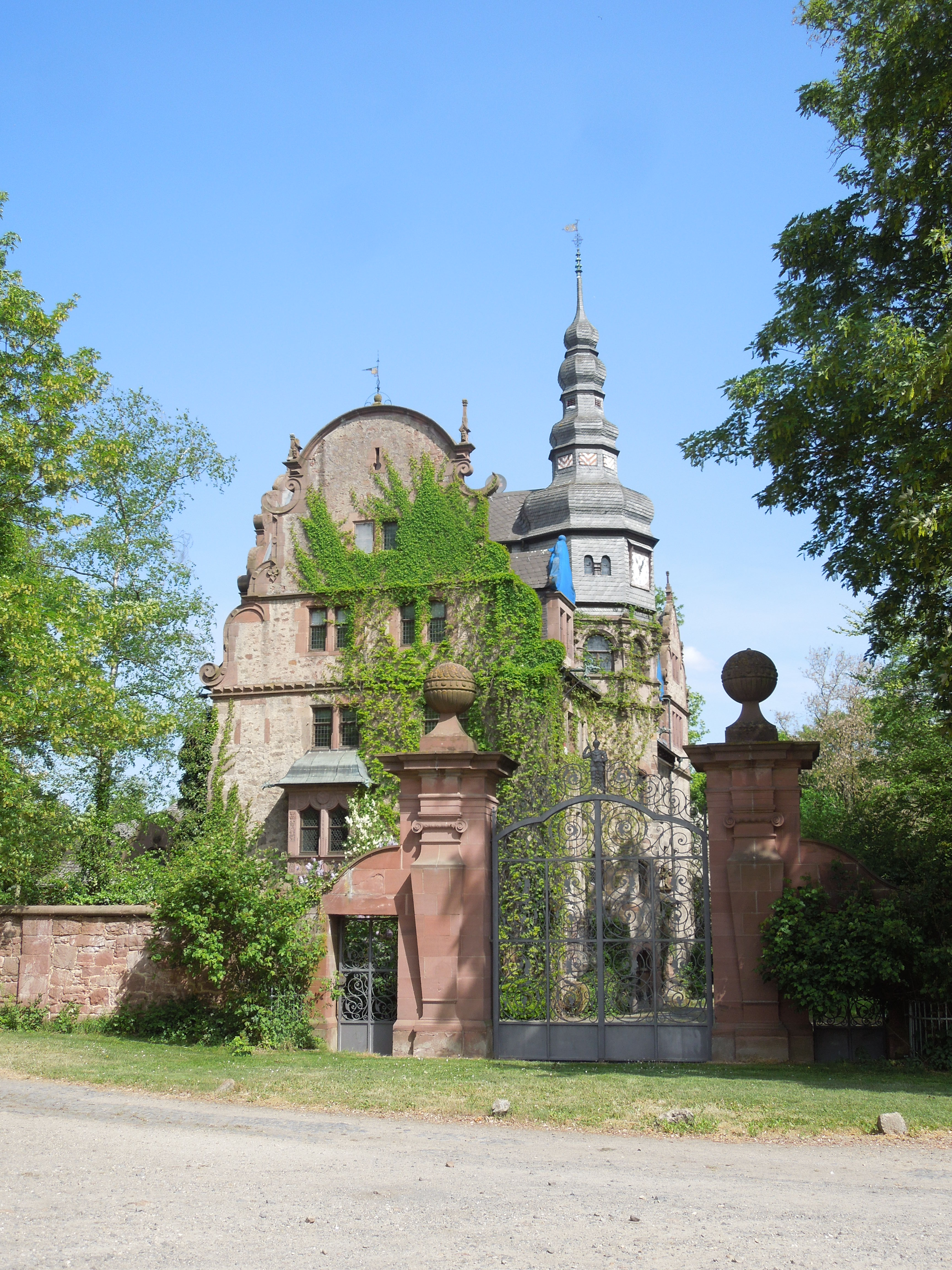 Schloss Dillich with gate, seen from the South